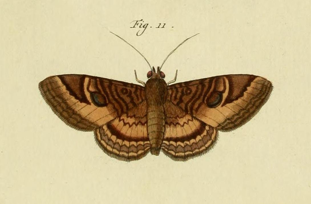 Speiredonia zamis from Cramer and Stoll-uitlandsche kapellen supplement- pl. 36